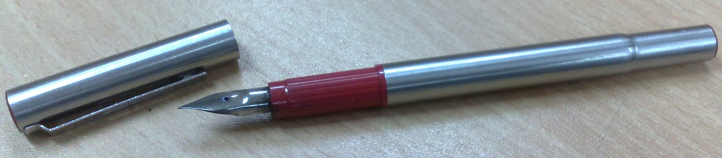 Image of a fountain pen.